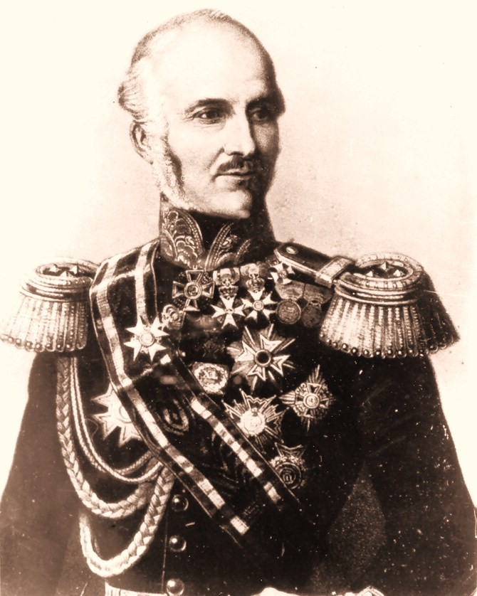 Forstner van Dambenoy